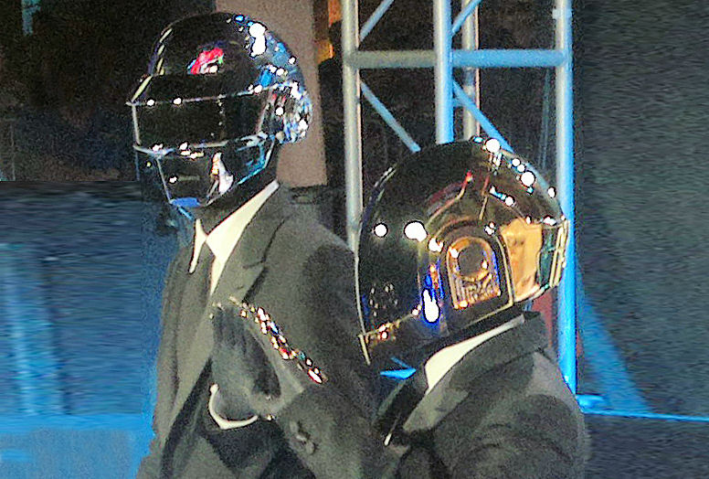 Daft Punk at global premiere of Tron: Legacy in Los Angeles, 2010